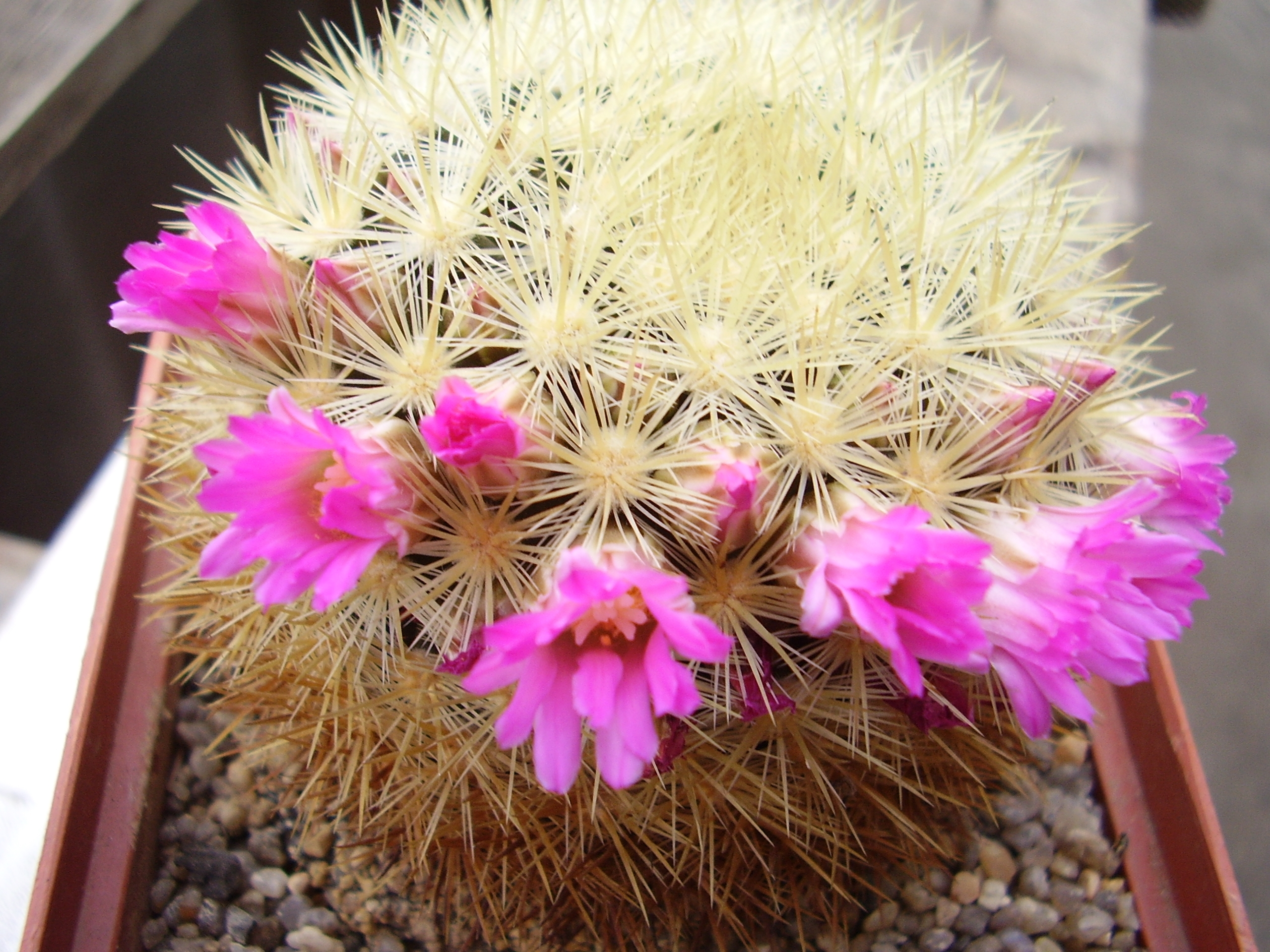 Mammillaria laui v.subducta from collection of Yuriy Shostak, Mykolaiv, Ukraine